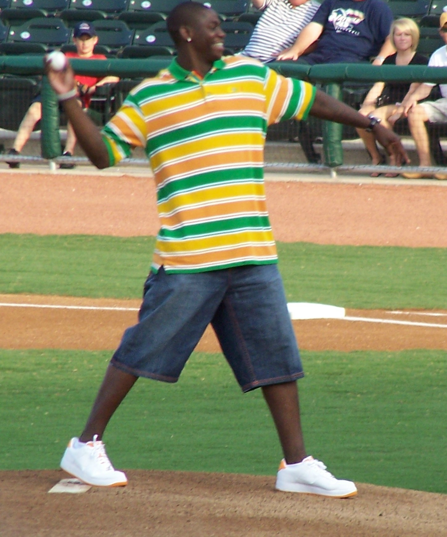 Ronnie Brewer throwing out the first pitch at a Northwest Arkansas Naturals game